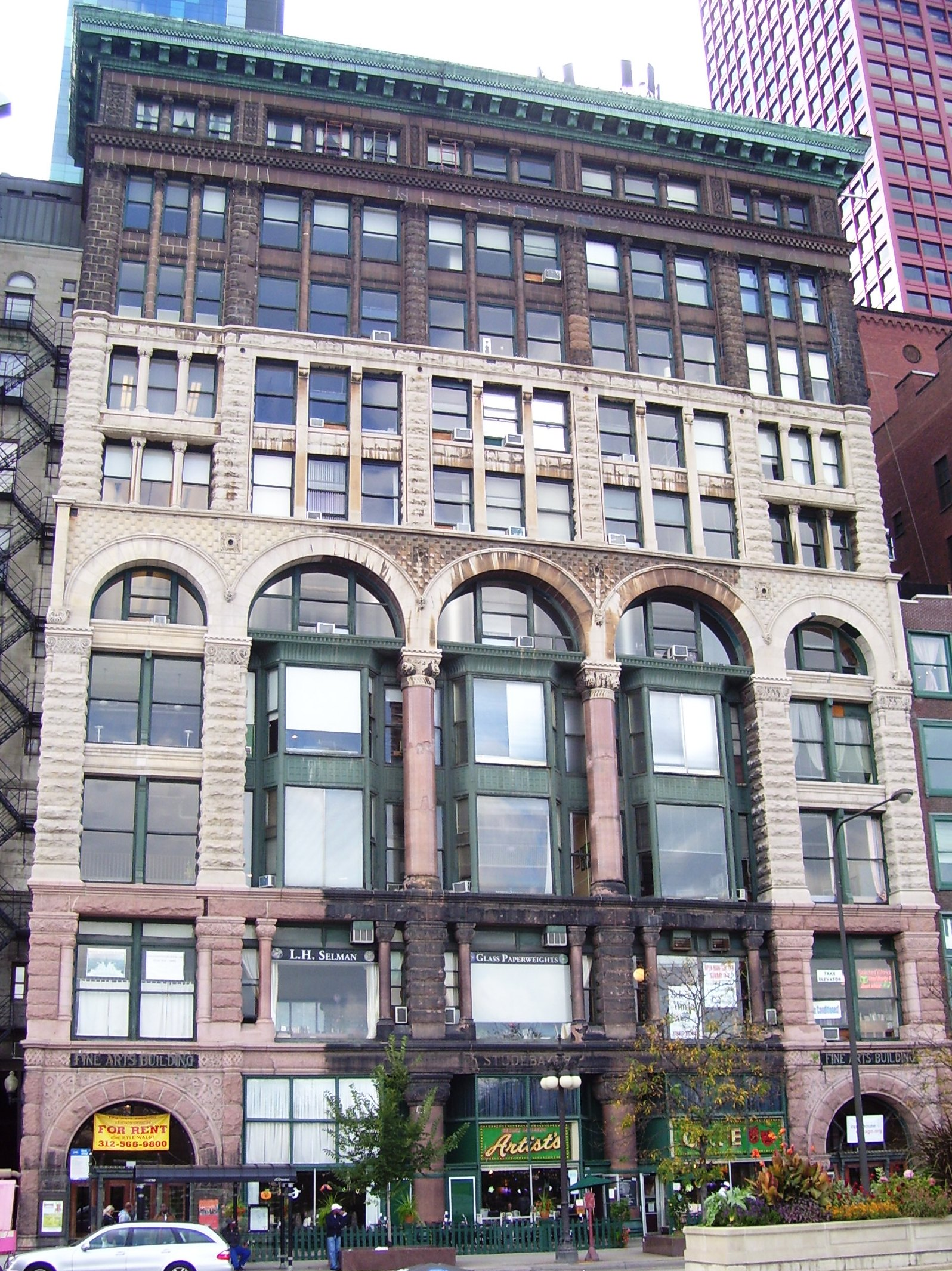 The Fine Arts Building at 410 South Michigan Avenue in the Loop neighborhood of Chicago, Illinois, also known as the Studebaker Building, was built in 1884-85 and was designed by Solon Spencer Bemen. It was extensively remodeled in 1898 in the Art Nouveau style. The Studebaker Theatre is located there. The building is listed on the National Register of Historic Places, and is part of Chicago's Historic Michigan Boulevard District.